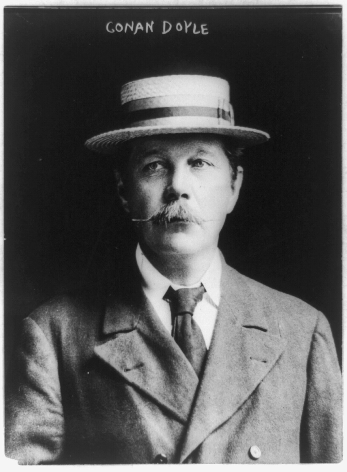 Conan Doyle (1859–1930), Scottish author